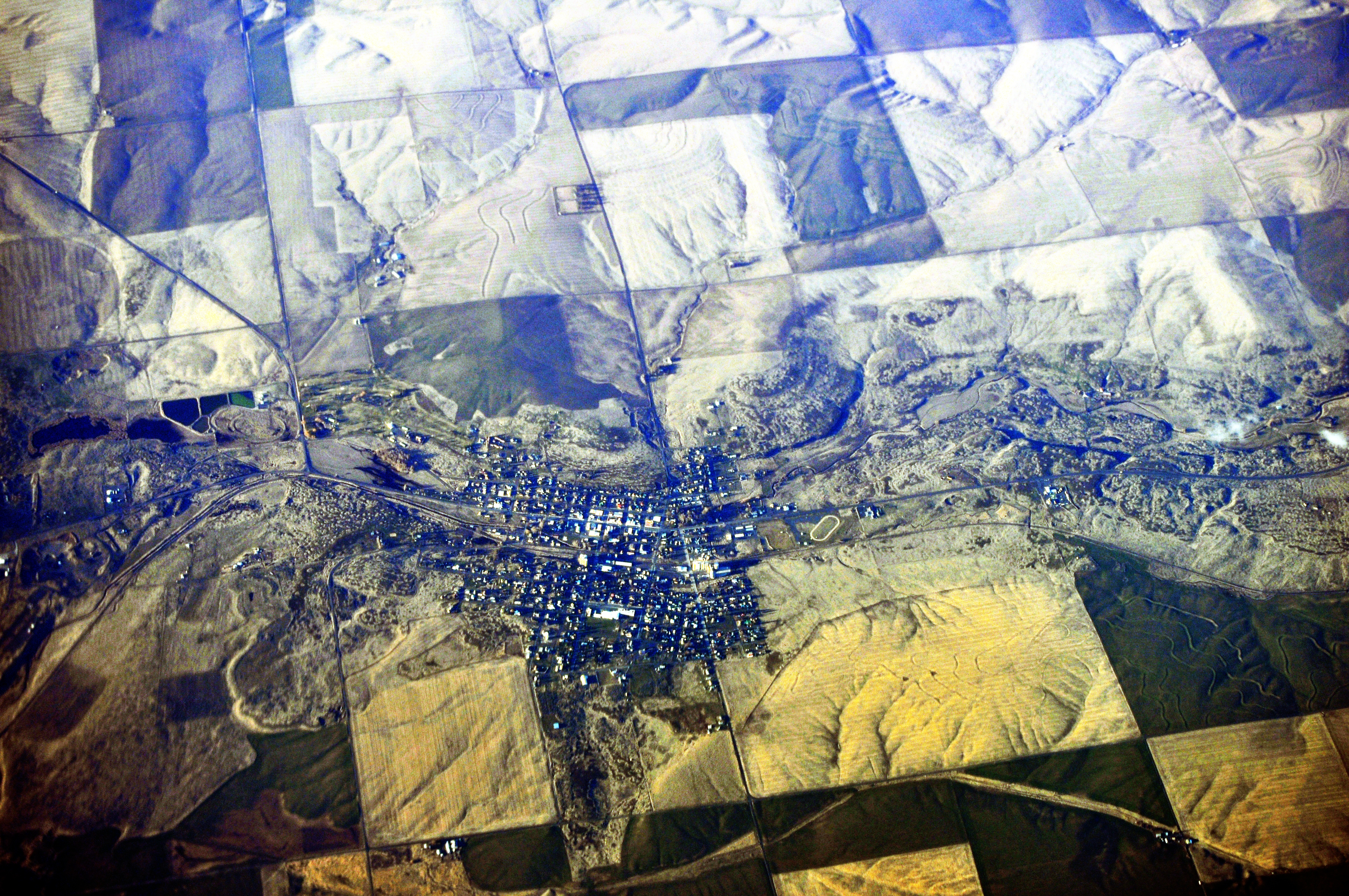 Aerial view of Wilbur, Washington, USA and environs.